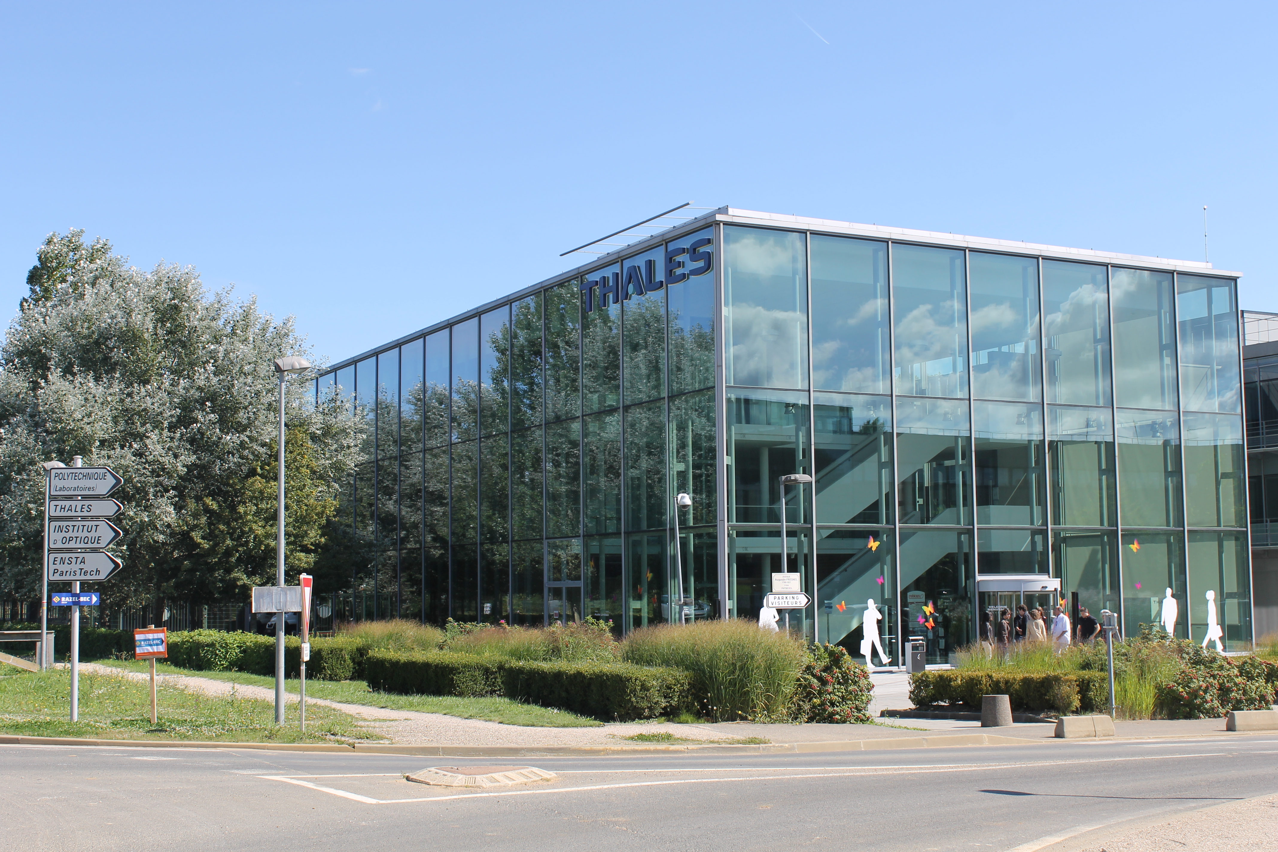 The research center of Thales, near the Ecole polytechnique, in the scientific cluster of Paris-Saclay, France.